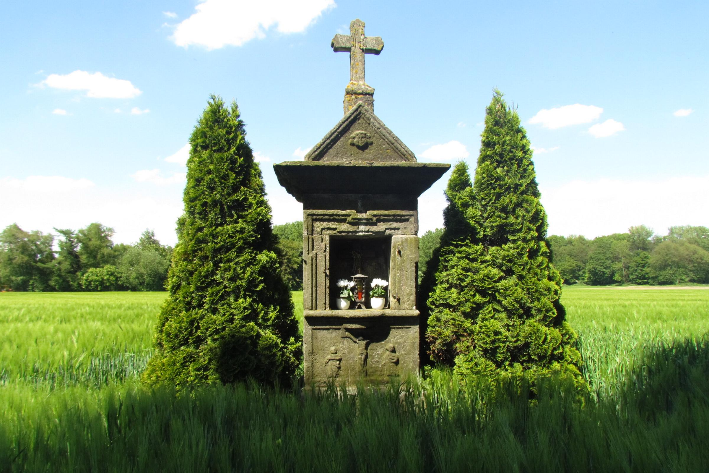 This is a photograph of an architectural monument.It is on the list of cultural monuments of Korschenbroich